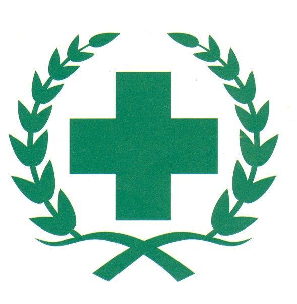 中文（台灣）: National Taipei University of Nursing and Health Science logo